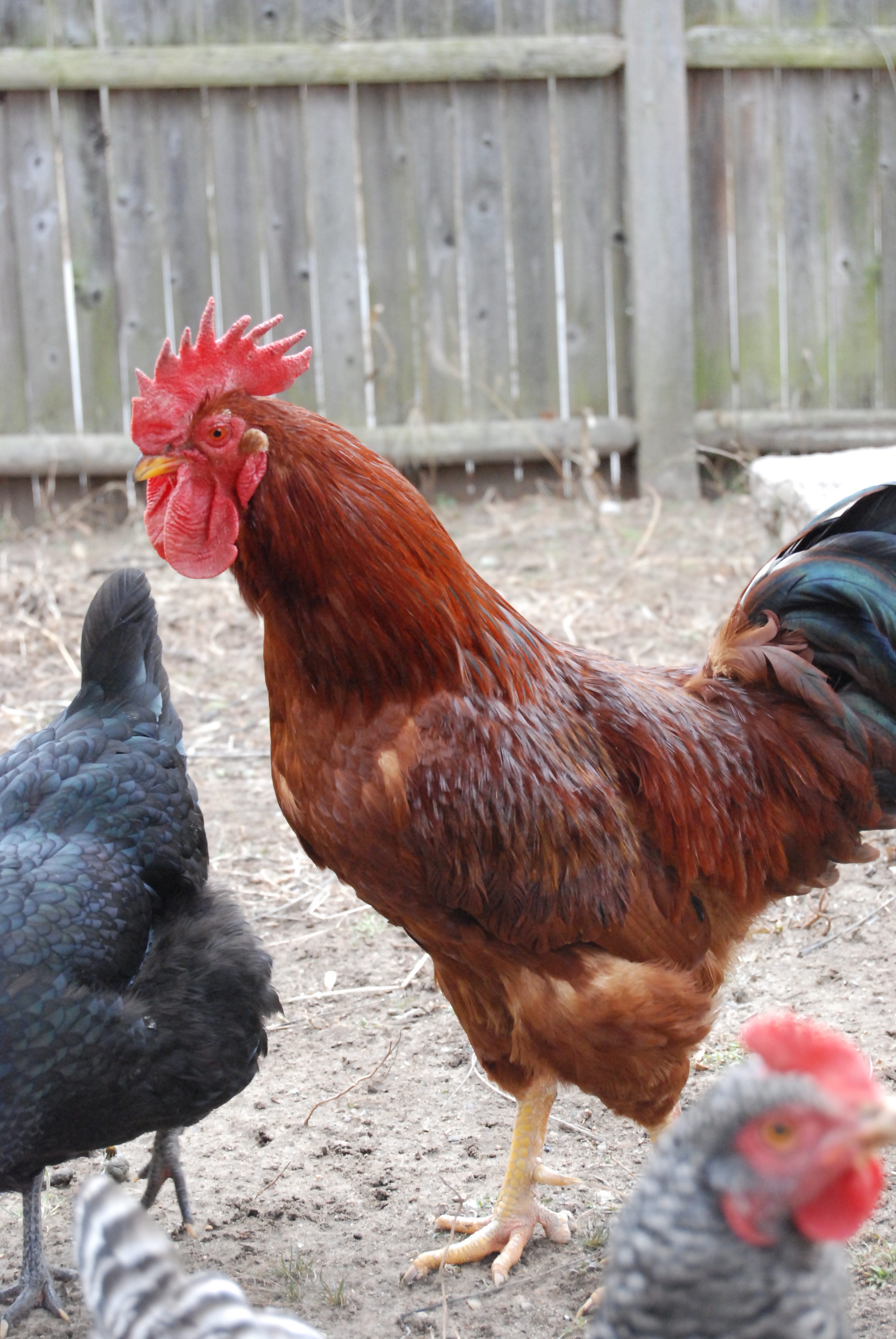 New Hampshire (chicken)